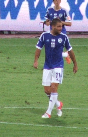 Israel vs.Russia 09.11.2012